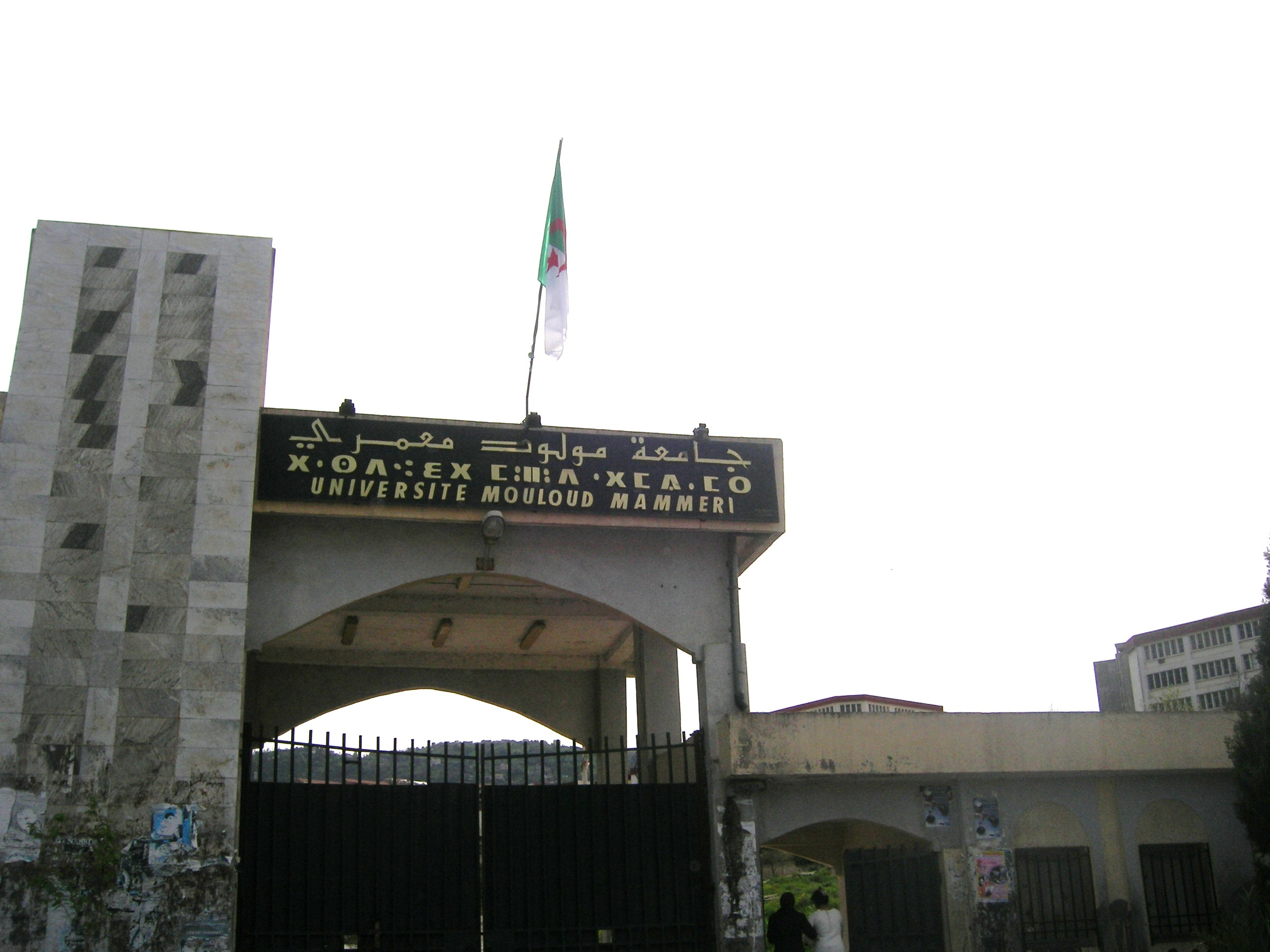 Entrance to the University of Tizi-Ouzou at the site Bastos Ou IhesnawenII